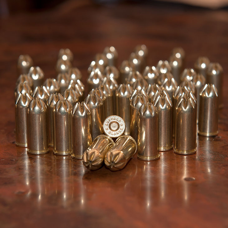 Image of mounted shooting competition blanks